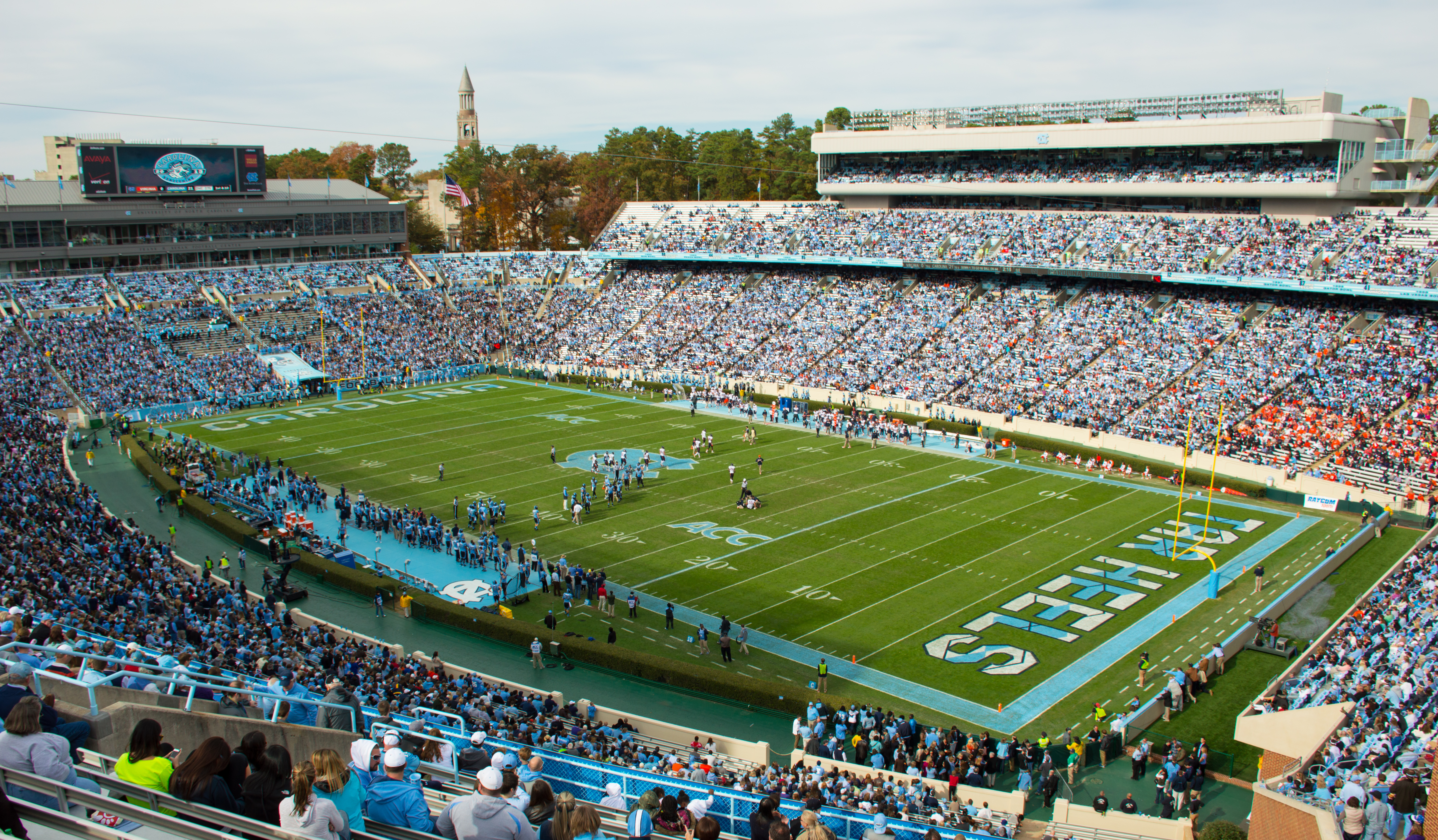 UNC vs UVA